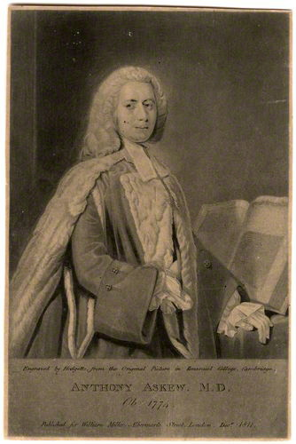 Portrait of Anthony Askew, M.D., painted by Thomas Hodgetts